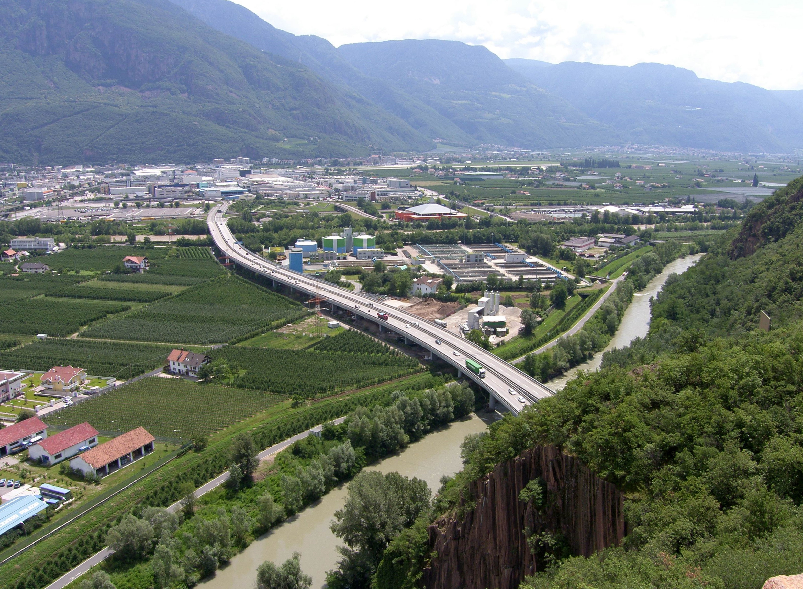 Mebo road (SS38), between castle Sigmundskron (Firmian), river Etsch (it: Adige) and Bozen (Bolzano)